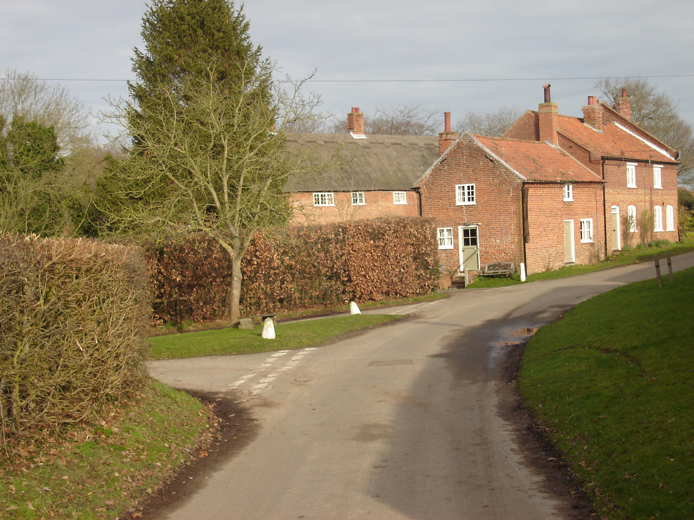 Photo of Silvergate a hamlet close to the village of Blickling, Norfolk